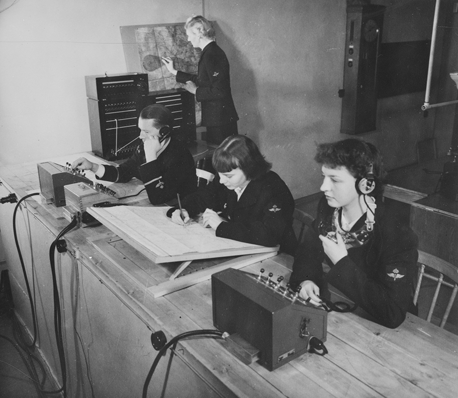 Försöksanläggning för luftförsvarsgruppcentral, Lgc, i lektionsalsbyggnaden på F 13, 1951. En militär och tre luftförsvarslottor i arbete. Tillhör Flygvapenmuseums bildarkiv.